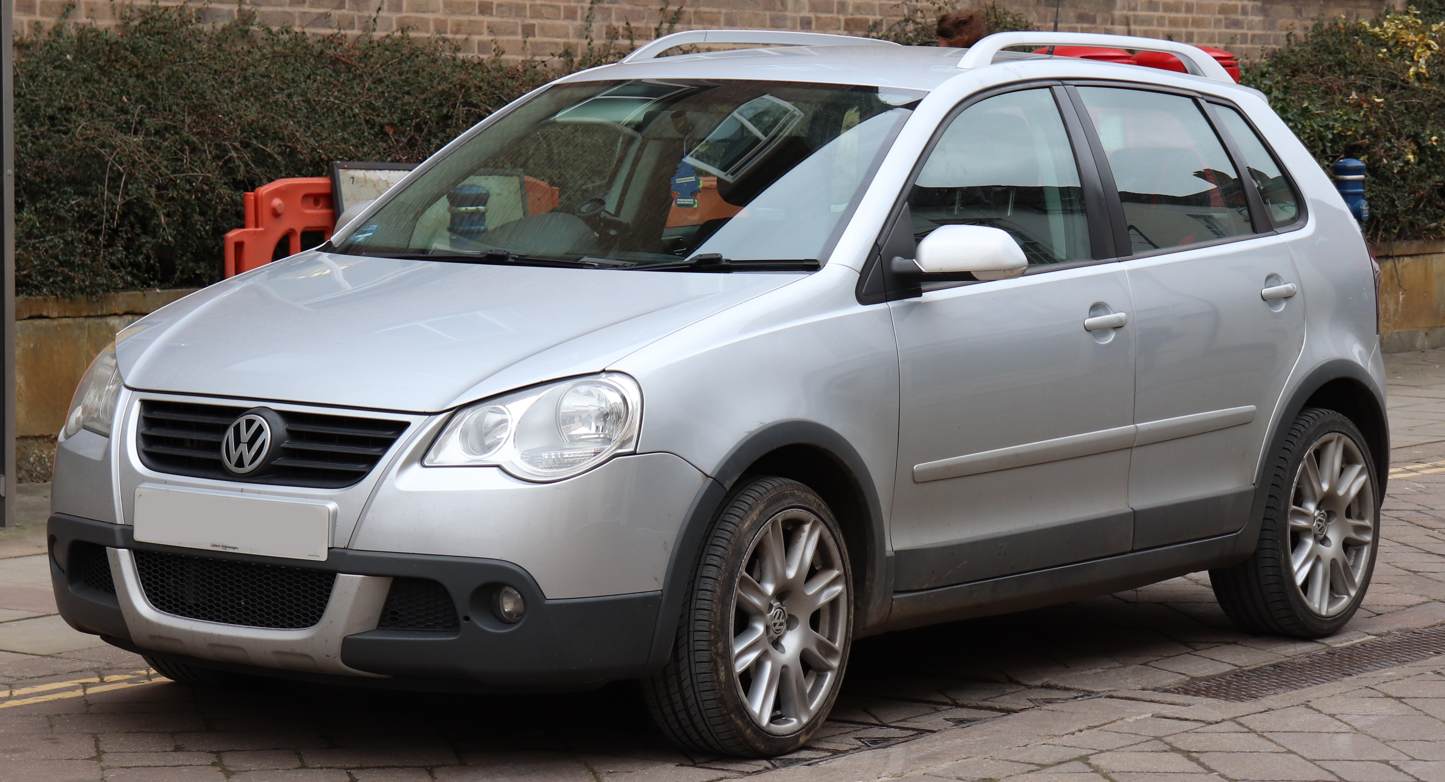 2007 Volkswagen Polo Dune TDi 1.4 Front Taken in Warwick